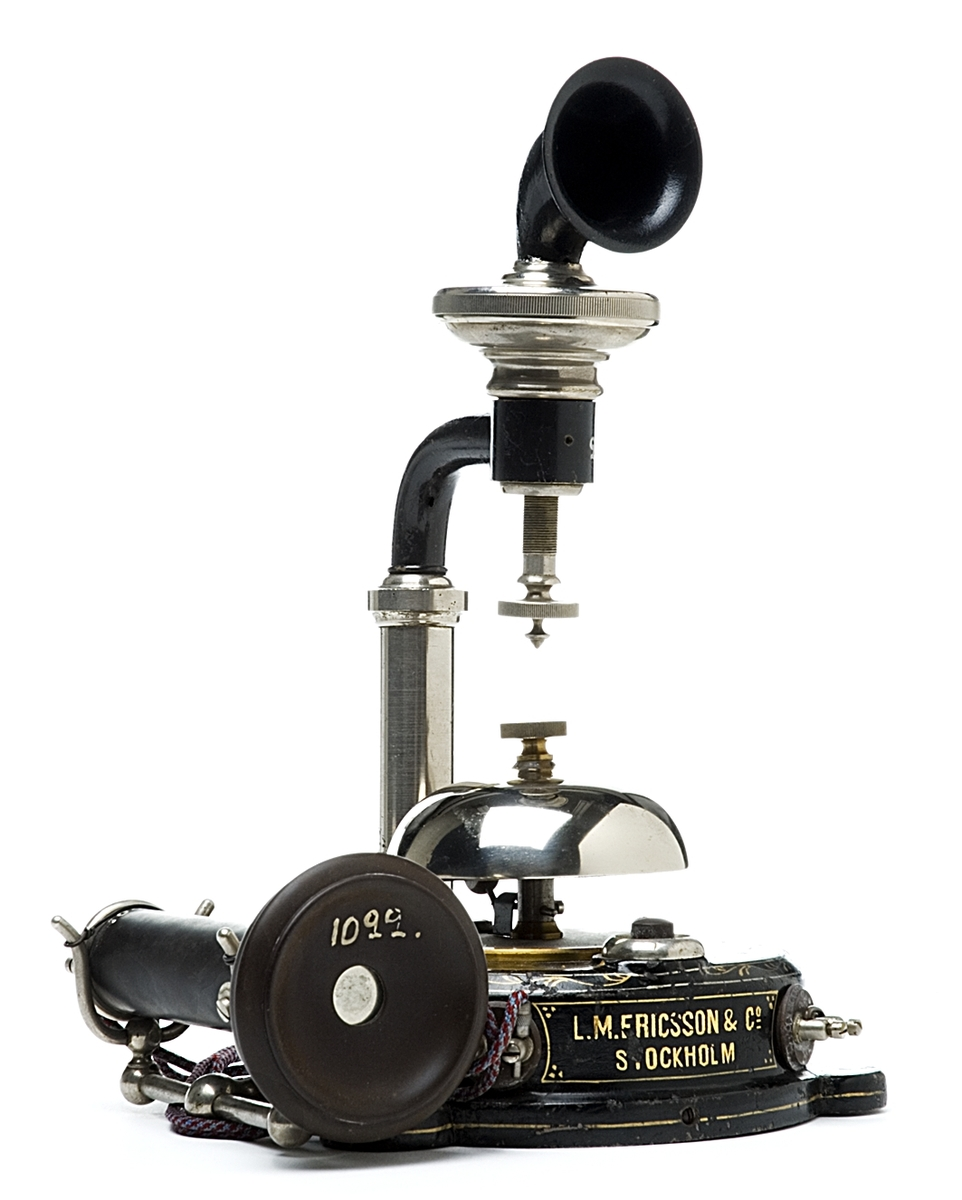 This is one of the first telephones Lars Magnus Ericsson, Hilda Ericsson and their partner produced in Stockholm, Sweden in 1881